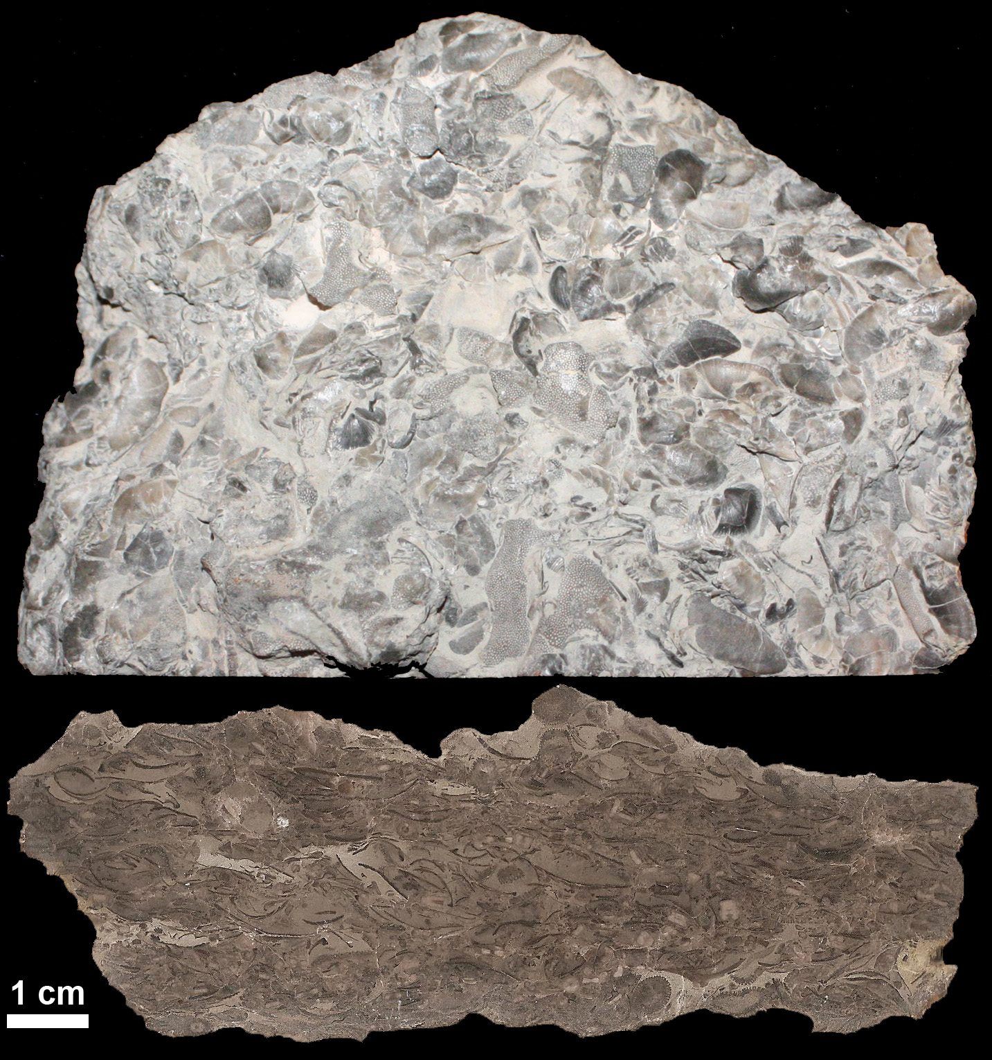 Photograph (top) and etched section (bottom) of sample of fossiliferous limestone from the Ordovician Kope Formation near Cincinnatti, Ohio, showing brachiopods and other fossils. Collected 1998.